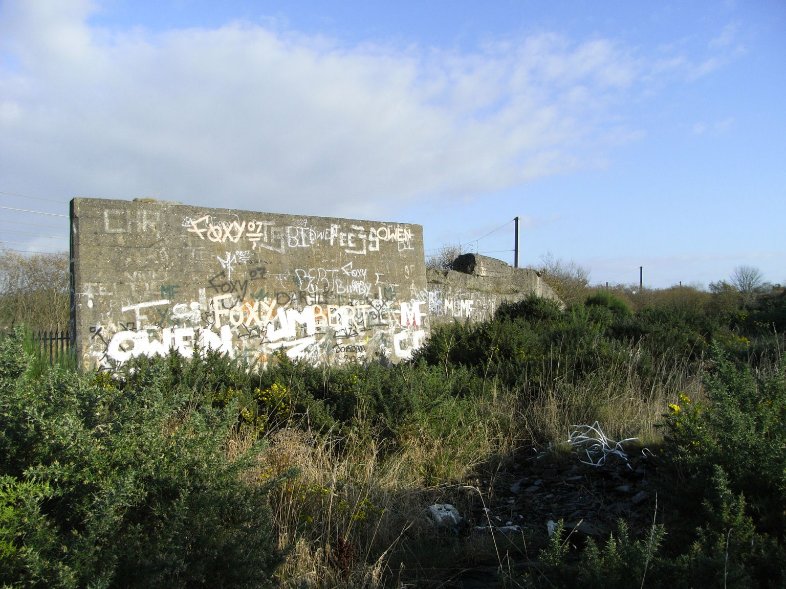 The remains of a bridge that carried the Lanarkshire and Ayrshire Railway over the former Ardrossan Railway on the outskirts of Stevenston, North Ayrshire, Scotland. Photo by Dreamer84, taken on 6 November 2007.